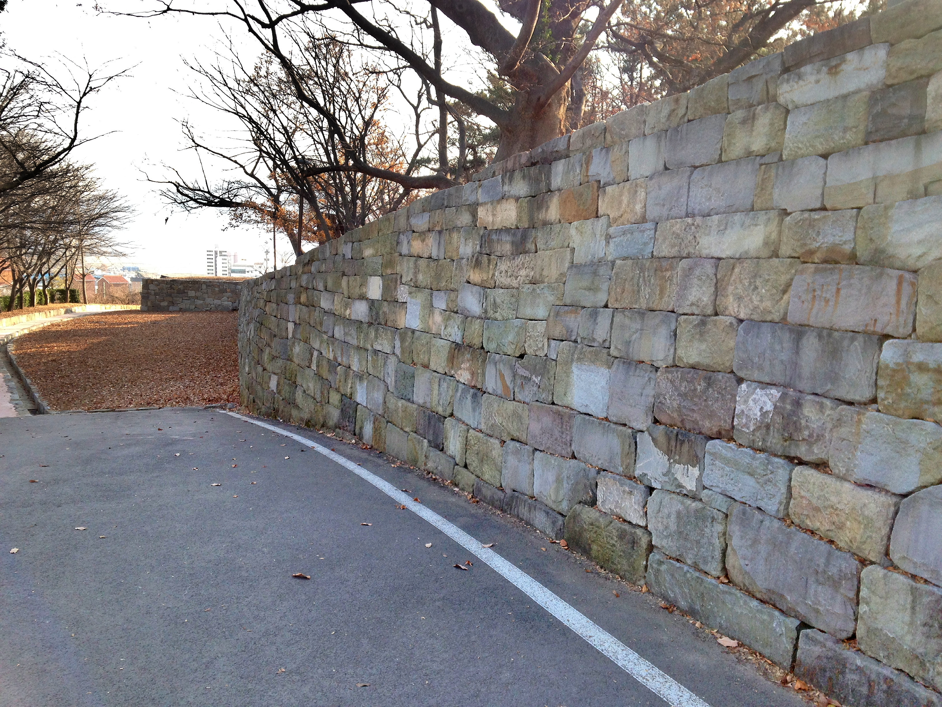 Sacheon eupseong Town Wall